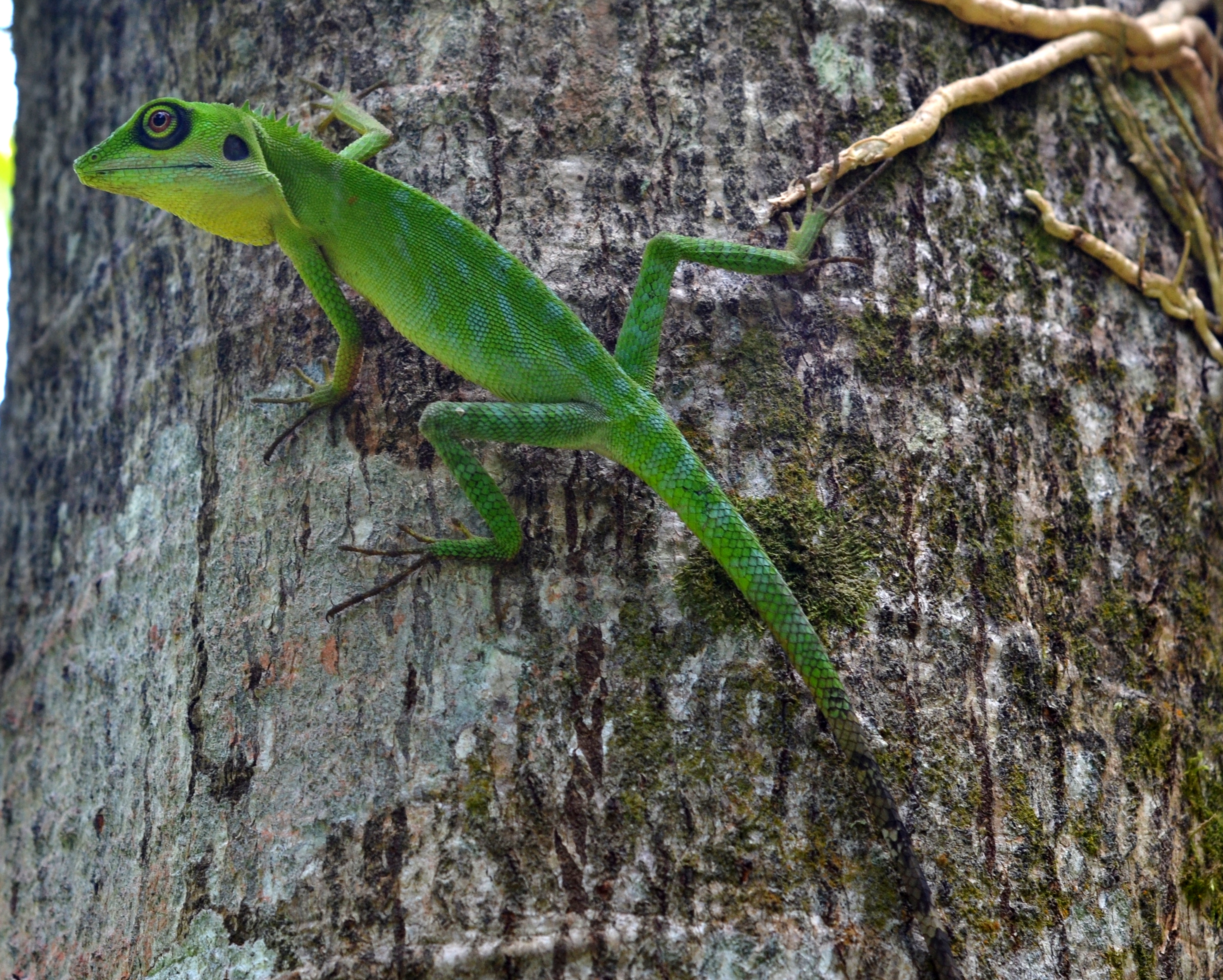 Green Crested Lizard (Bronchocela cristatella) taken at Bukit Batok Nature Park, Singapore